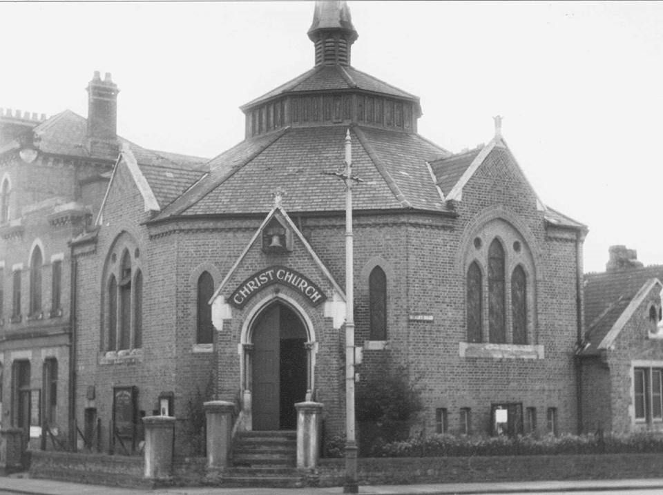 Photograph of the Rotunda at Aldershot in Hampshire